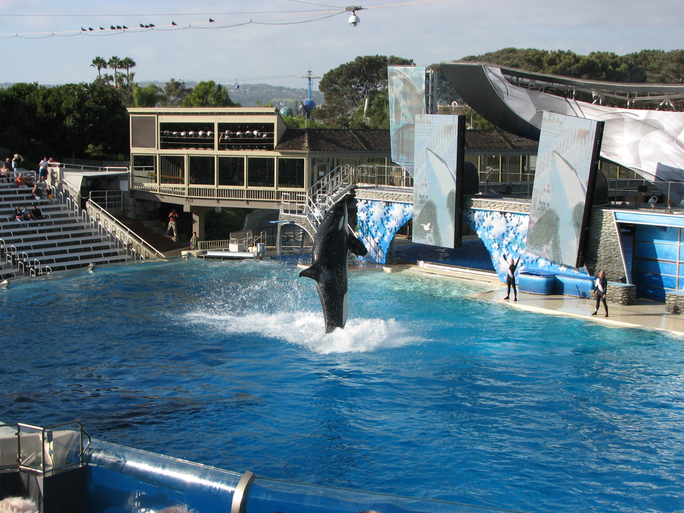 Shamu exhibition in SeaWorld, San Diego.